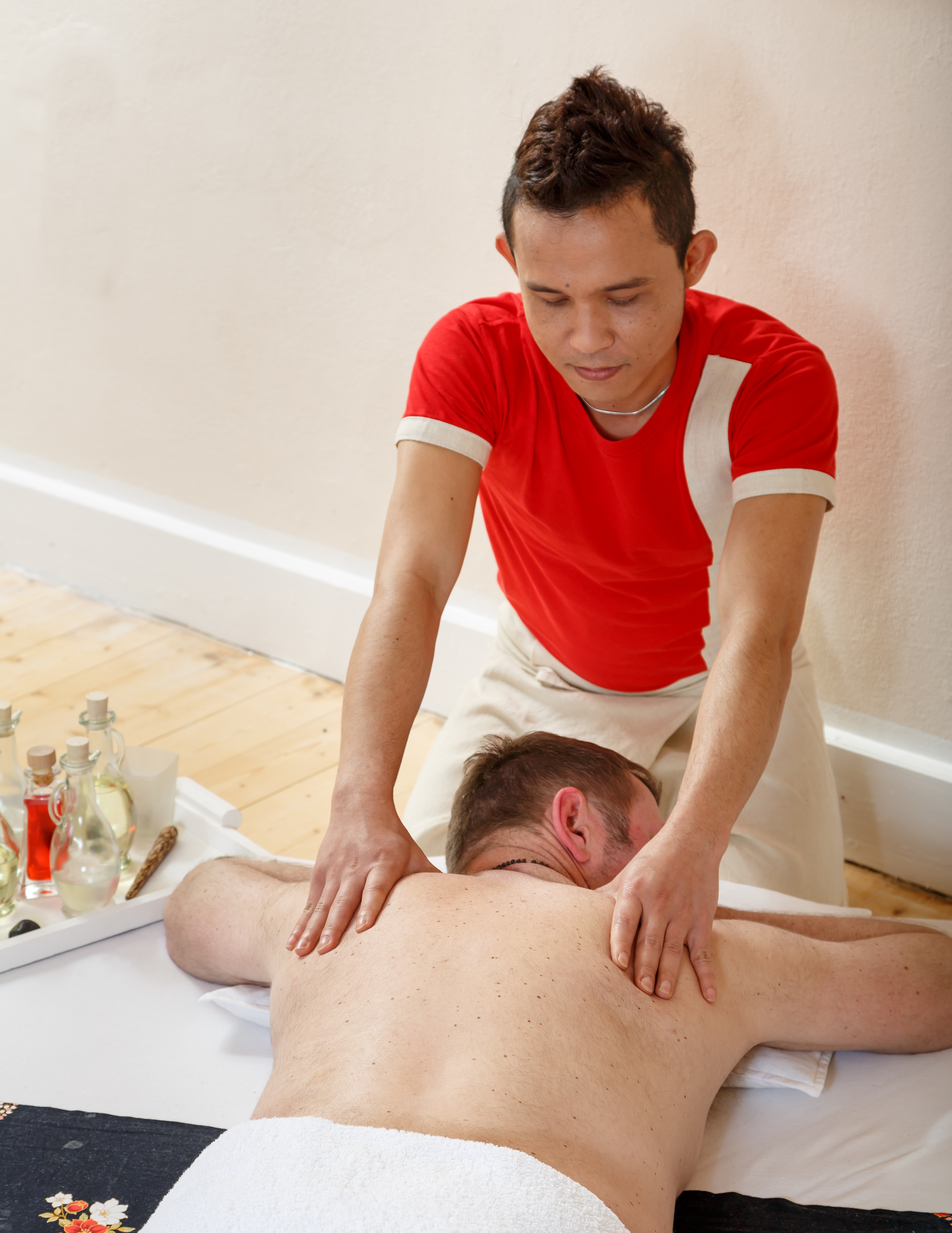 Ostentrop, Germany: Massage therapist performing a traditional thai massage at Chanchai Thaimassage Parlour